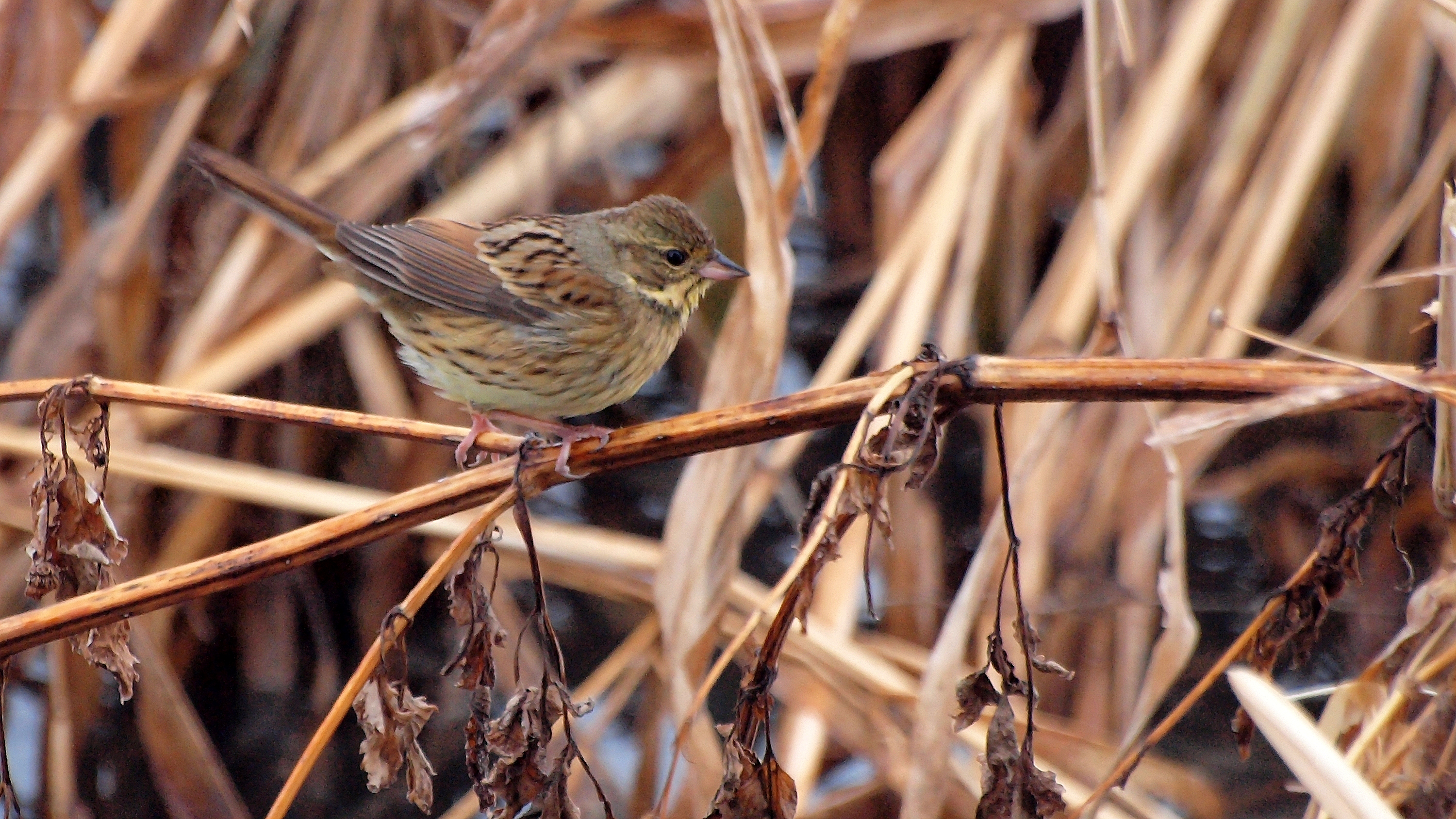 We had heavy snow fall yesterday. Male and female Black faced bunting (female) are hopping around the stream in front of my house.